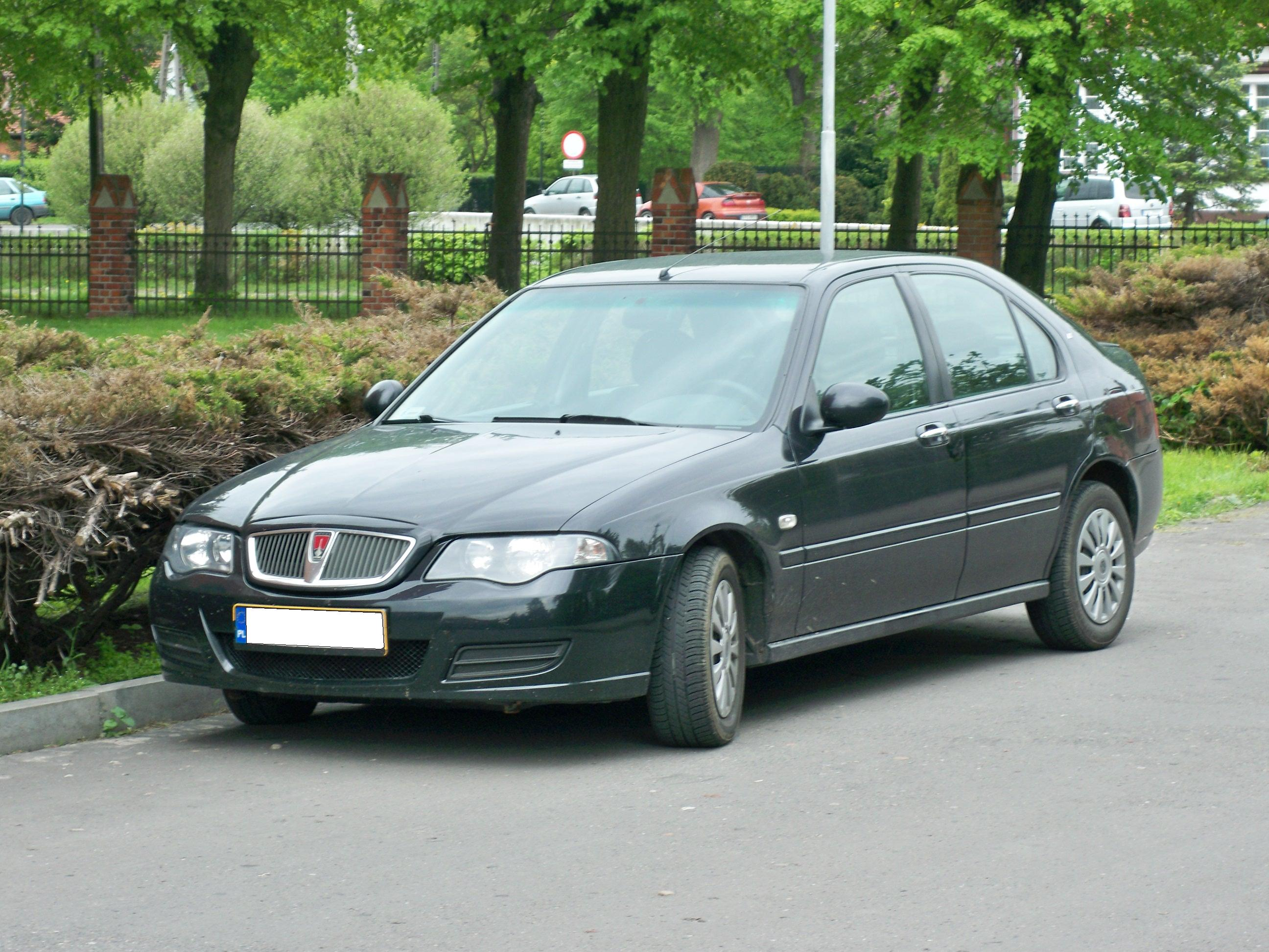 Rover 45 Liftback Facelift front in Pelplin, Pomorskie, Poland.